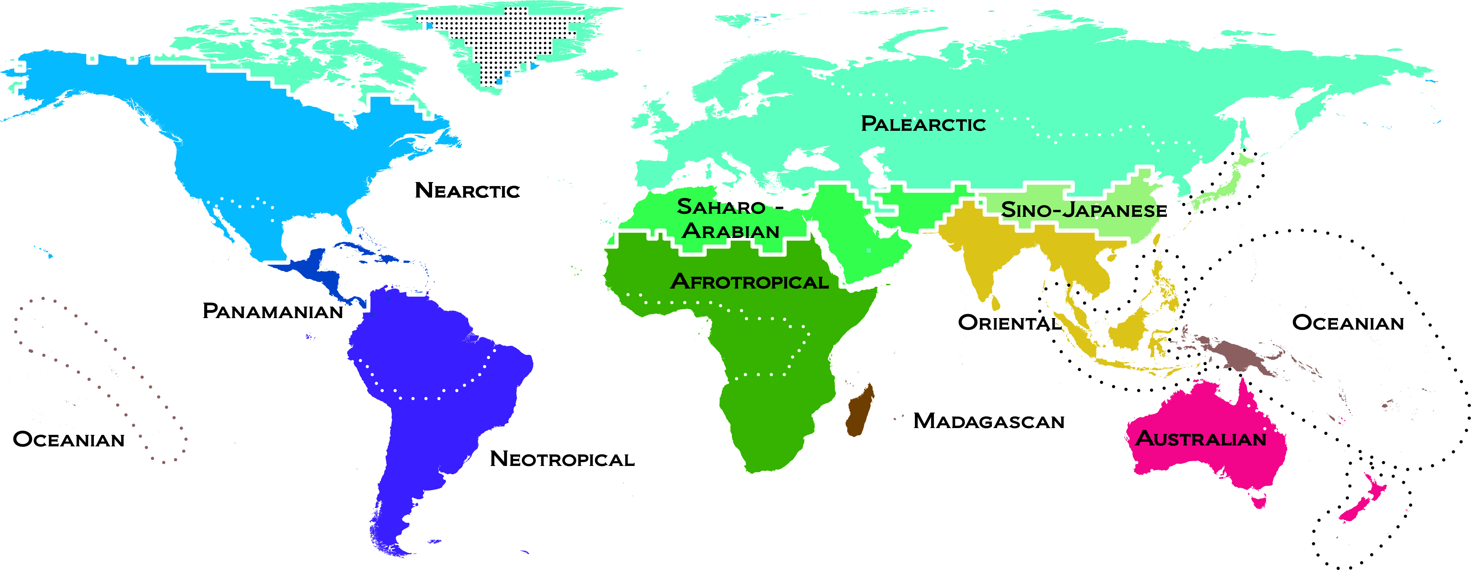 Map of terrestrial zoogeographic regions - Journal Science / AAAS